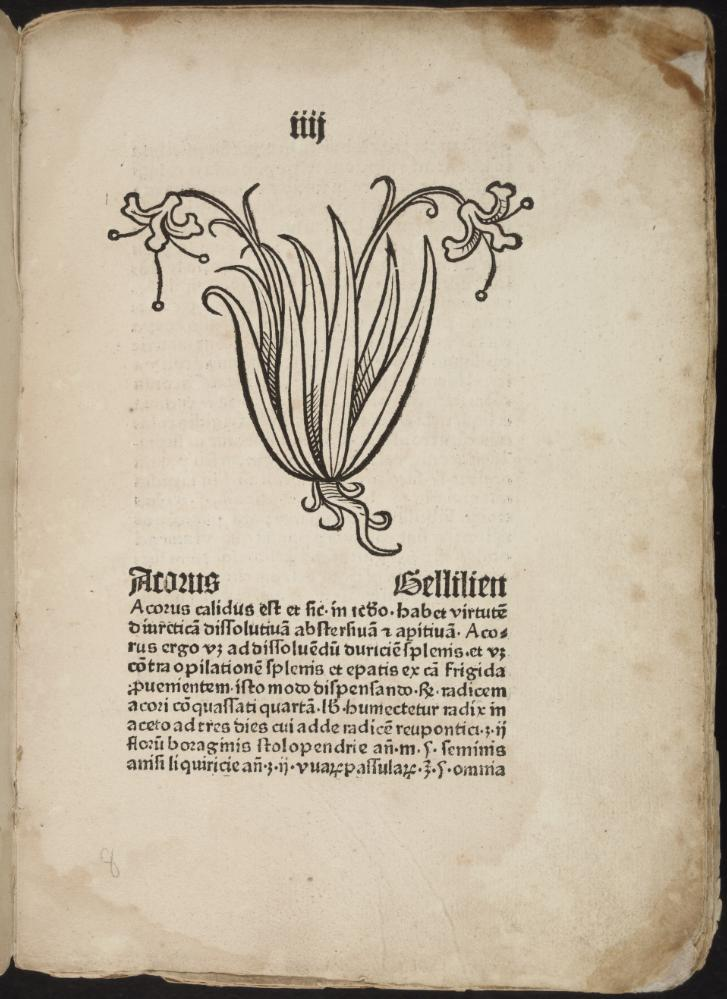 "Acorus calidus" [= ?; not an Acorus species] - Plate 4 from "Herbarius"